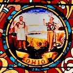 Closeup of the 1866 Seal of Ohio depicted in a stained glass window in the third floor of the central atrium of the San Diego Hall of Justice. Originally hung in 1889 in the San Diego County Superior Courthouse.